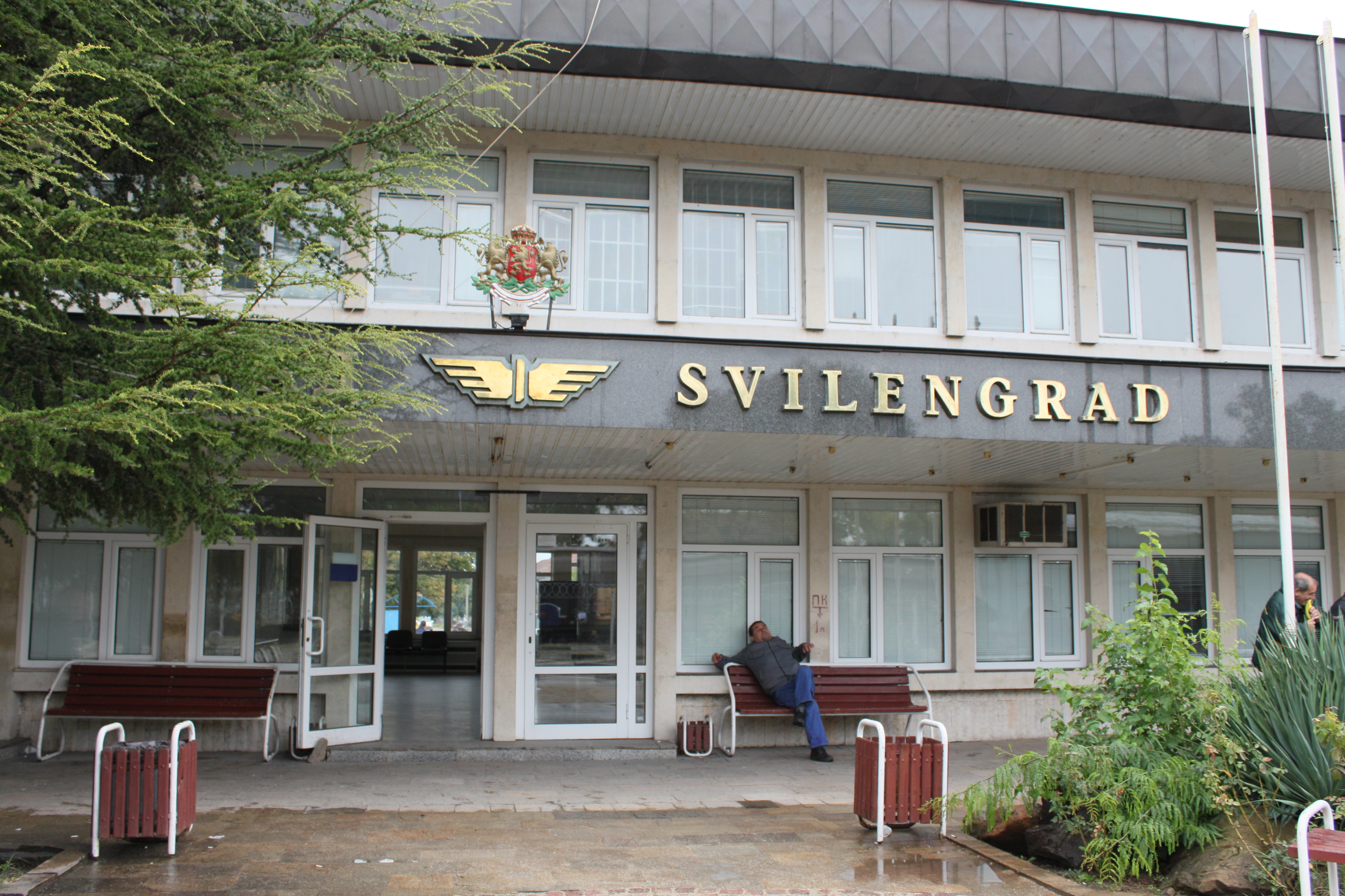 Swilengrad